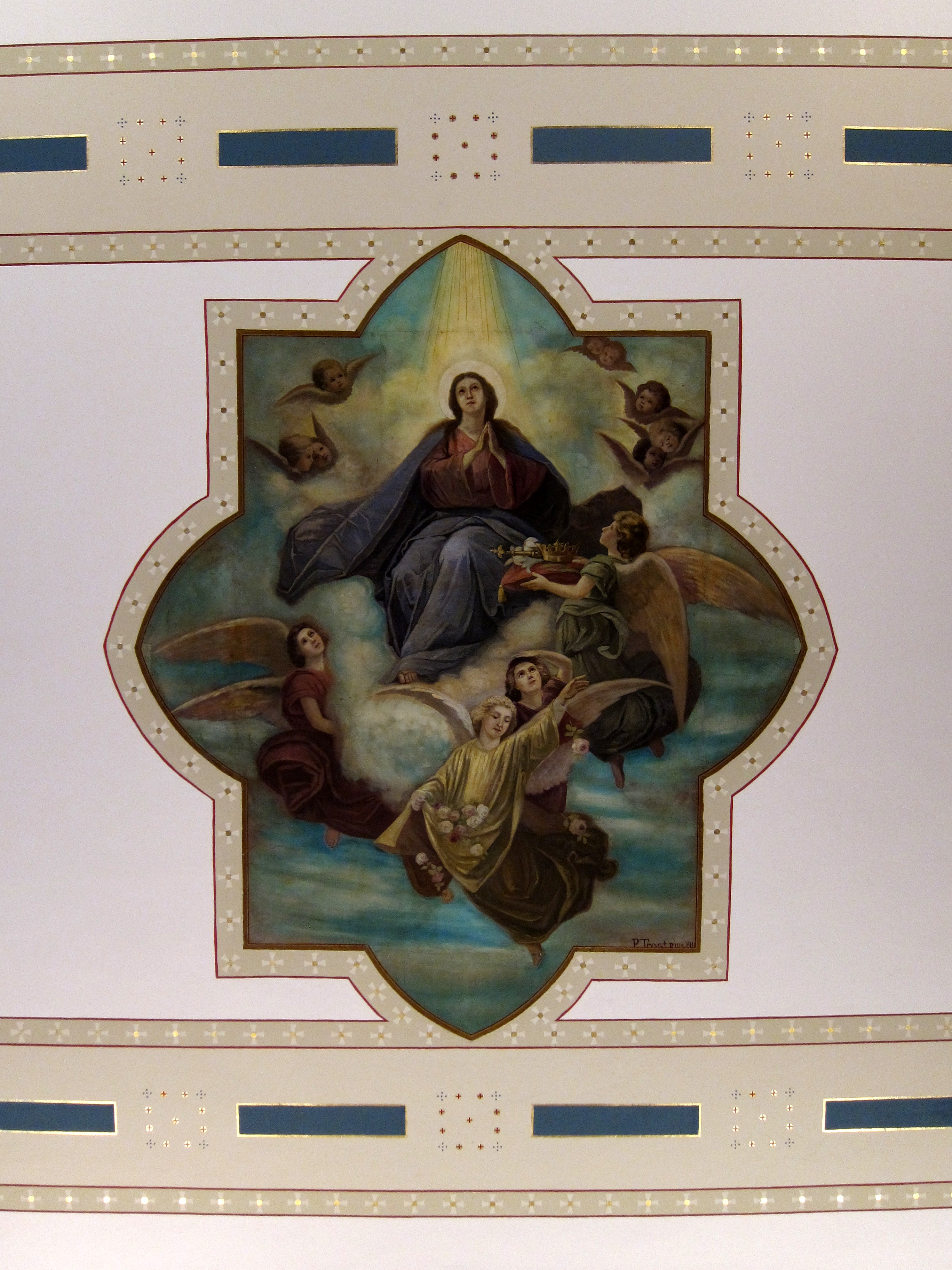 Church of the Nativity of the Blessed Virgin Mary (Cassella, Ohio) - interior, ceiling painting, Immaculate Conception